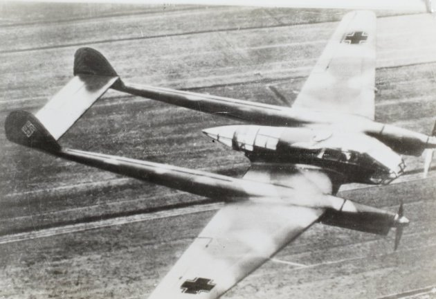 PictionID:38235879 - Catalog:Array - Title:Array - Filename:15_002313.TIF - -------Image from the Charles Daniels Photo Collection.----Album: German Aircraft.-----------PLEASE TAG these images with any information you know about them so that we can permanently store this data with the original image file in our Digital Asset Management System.-----------------SOURCE INSTITUTION: San Diego Air and Space Museum Archive